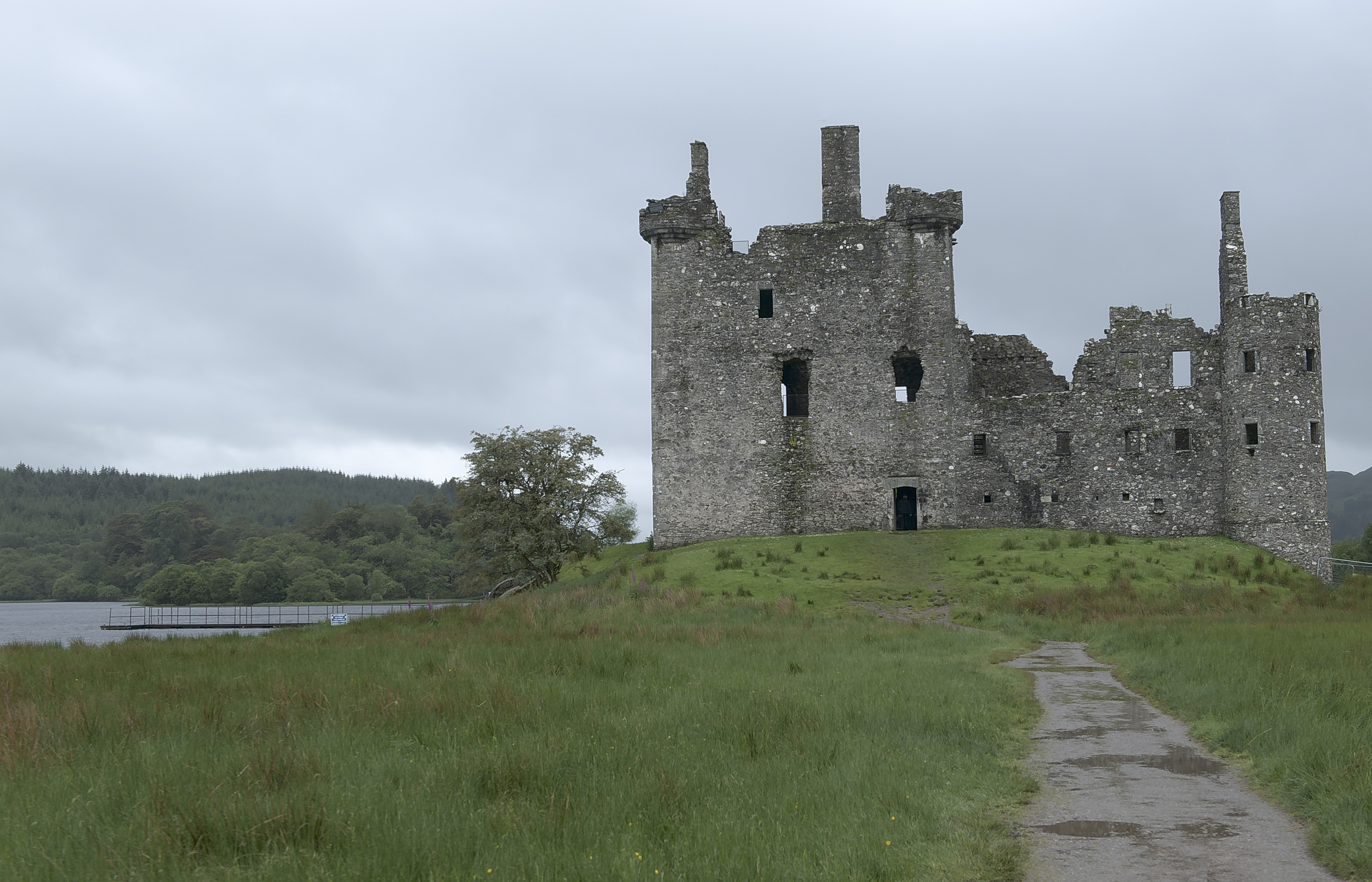 Kilchurn Castle, Scotland. HDR image.